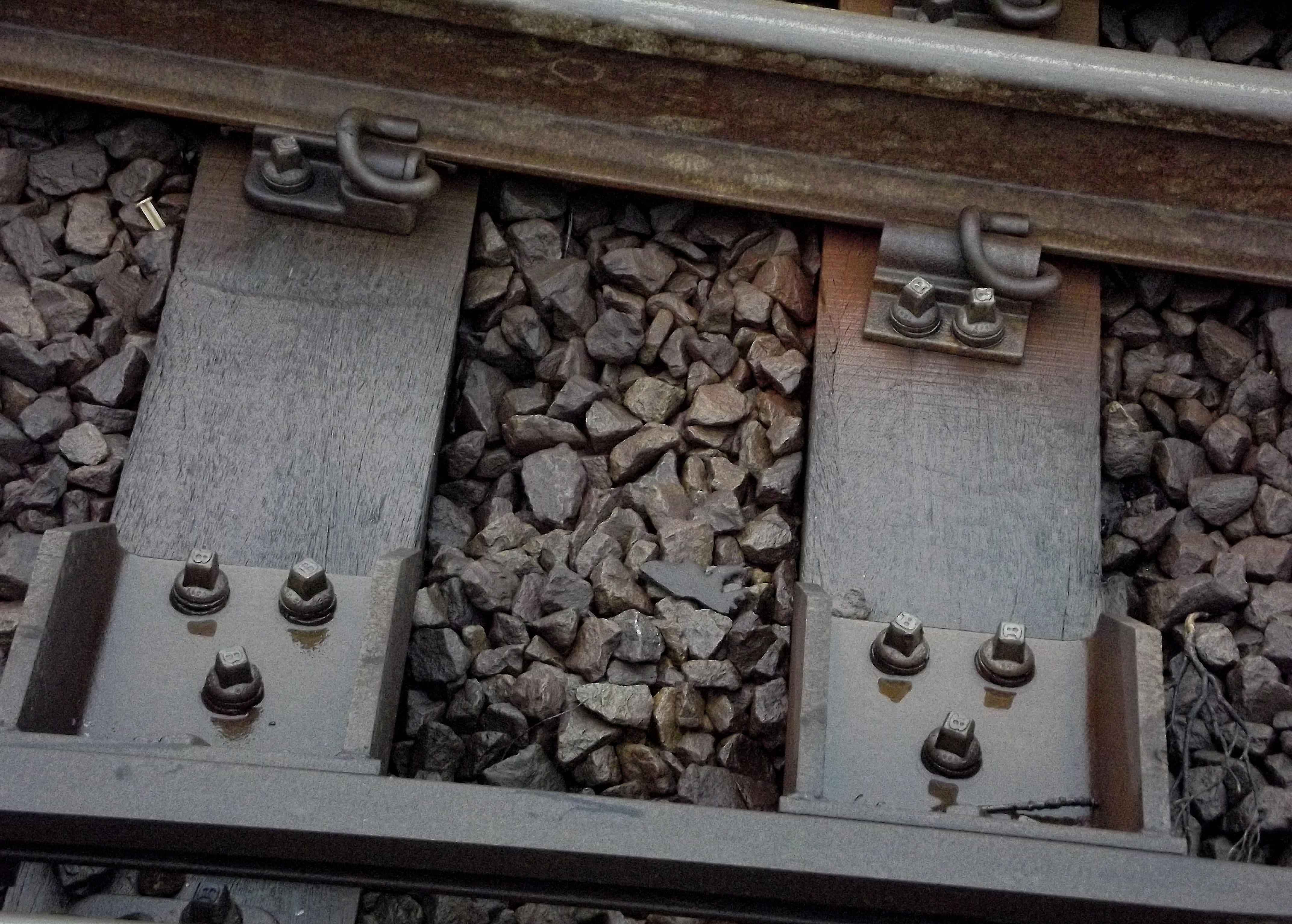 close-up of railway track